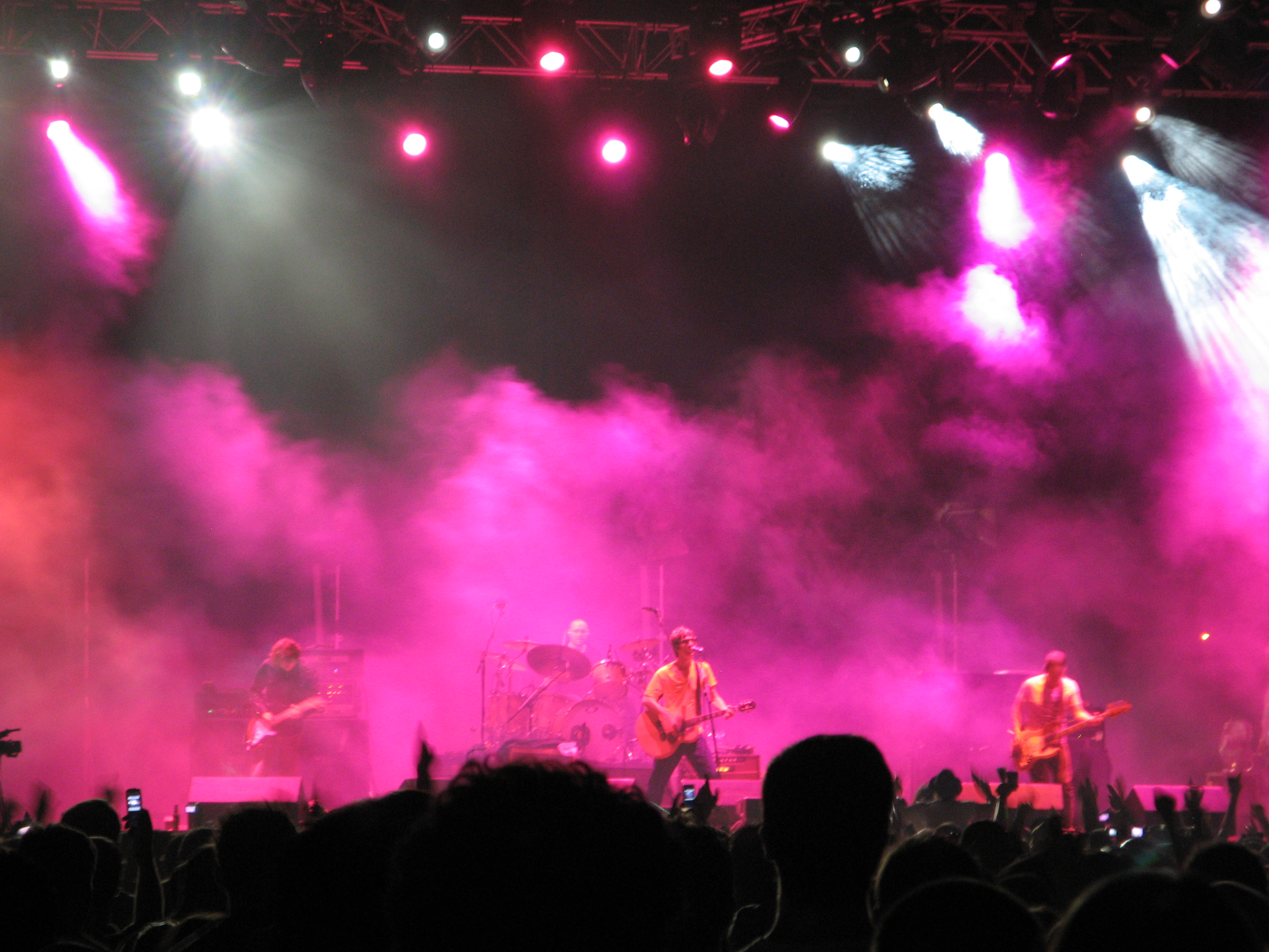 The Verve.